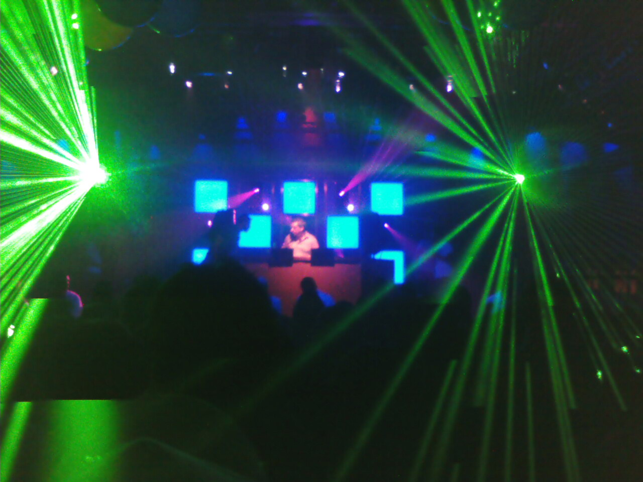 Lightshow Discotheque INDEX - Beach Party 2007. Schüttorf, Lower Saxony, Germany.